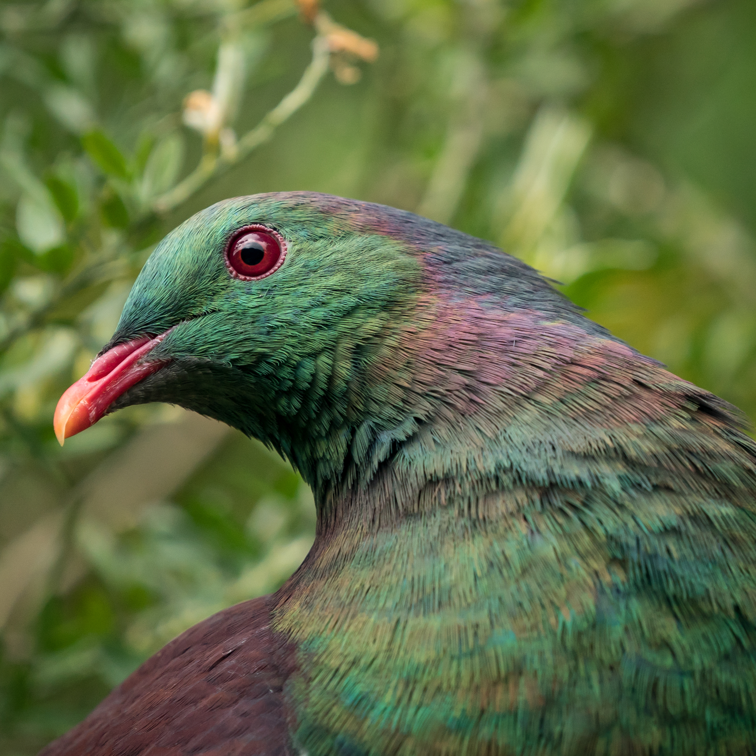 Close-up of a New Zealand wood pigeon or kereru (Hemiphaga novaeseelandiae; kererū)